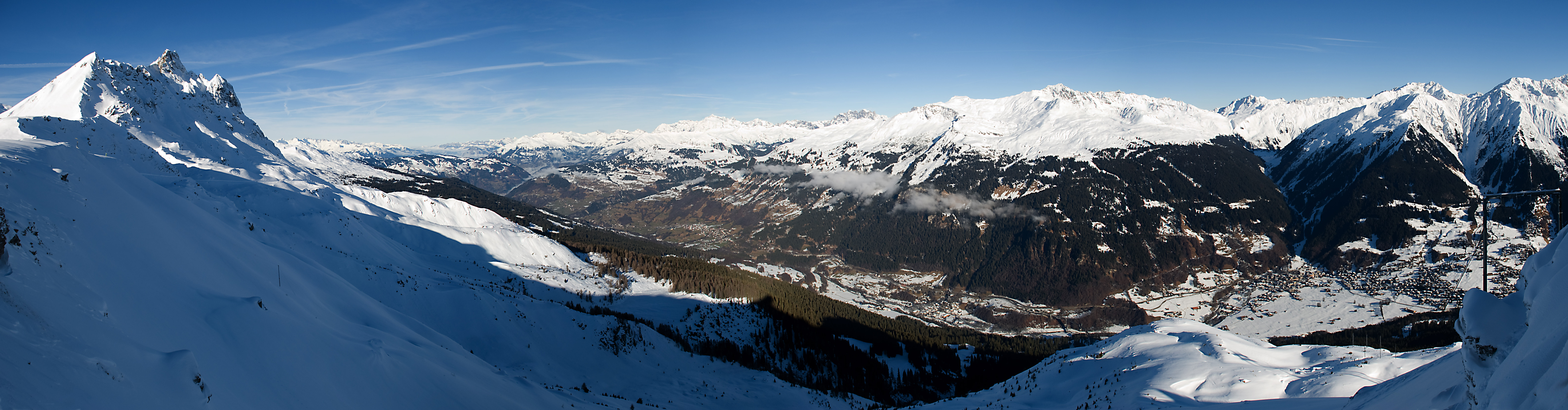 Panoramic view from Gotschnagrat, Klosters, Switzerland NOTE: This image is a panorama consisting of 5 frames that were merged or stitched in Adobe Photomerge. As a result, this image necessarily underwent some form of digital manipulation. These manipulations may include blending, blurring, cloning, and color and perspective adjustments. As a result of these adjustments, the image content may be slightly different than reality at the points where multiple images were combined. This manipulation is often required due to lens, perspective, and parallax distortions.